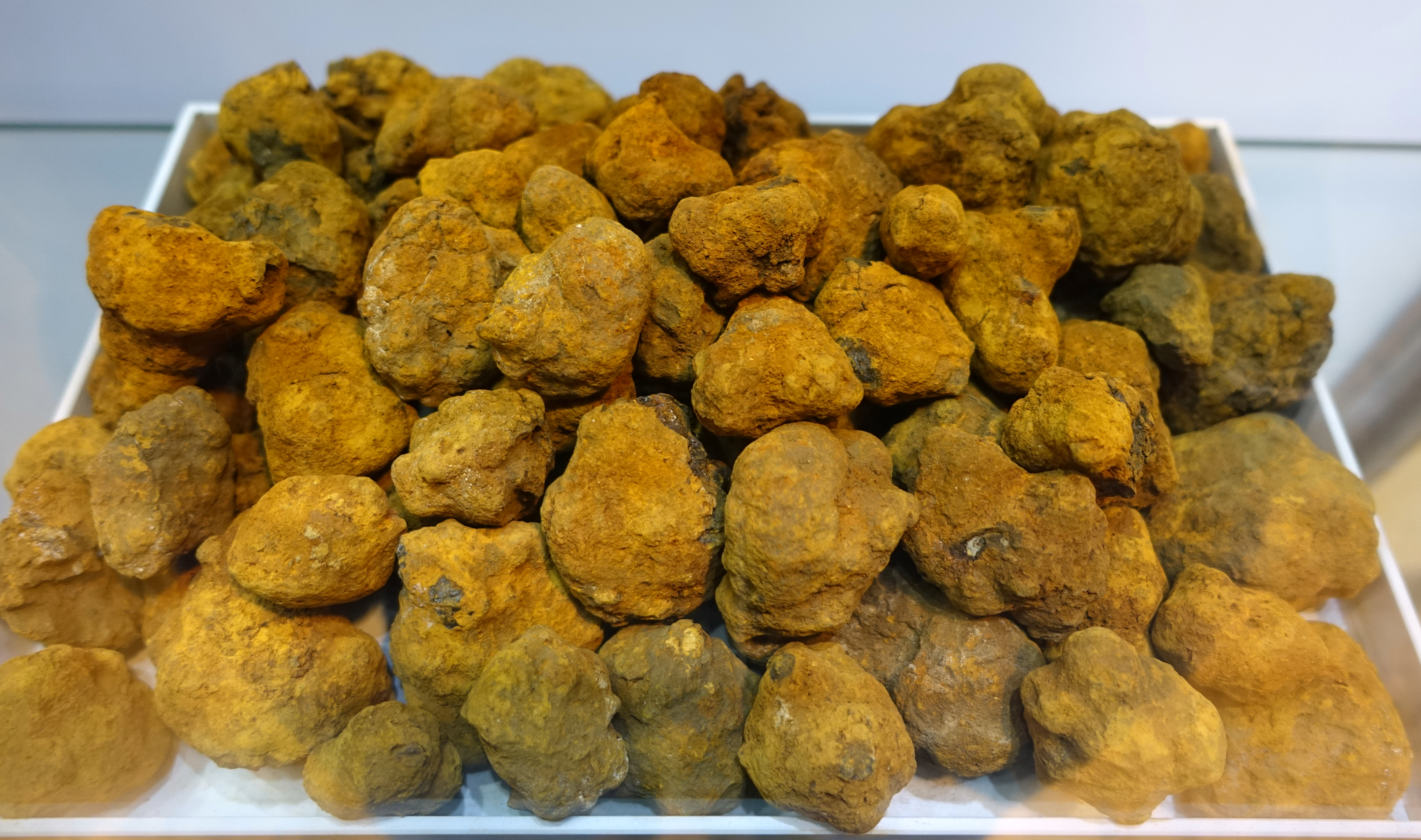 Brenham meteorodes (oxidised masses of originally meteoritic material). Exhibit at the Center for Meteorite Studies, Arizona State University, Tempe, Arizona, USA.